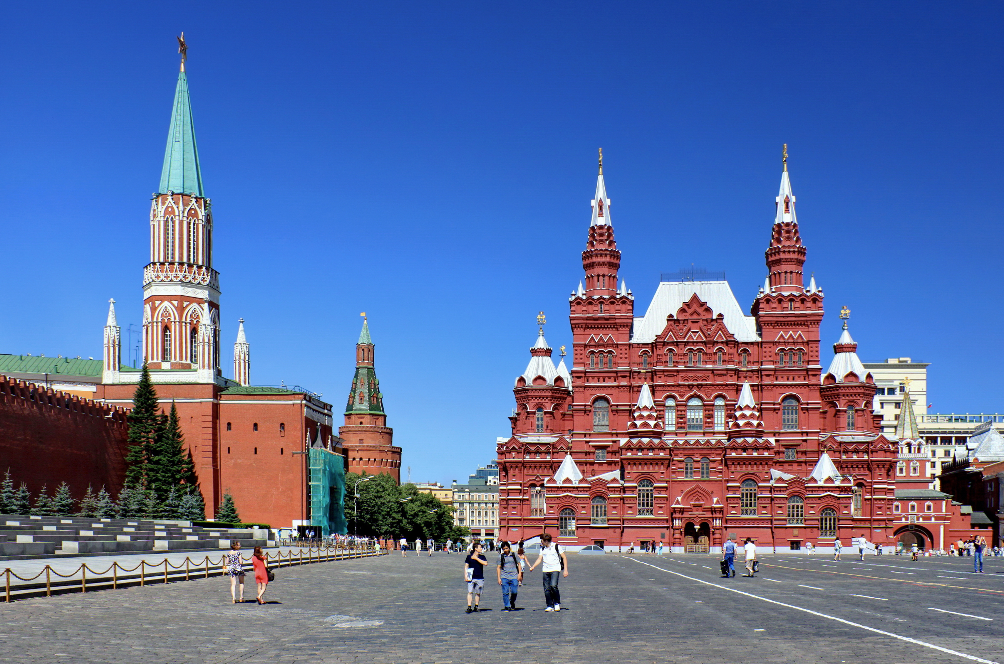 Red Square: State Historical Museum, The Corner Arsenalnaya Tower, The Nikolskaya Tower.